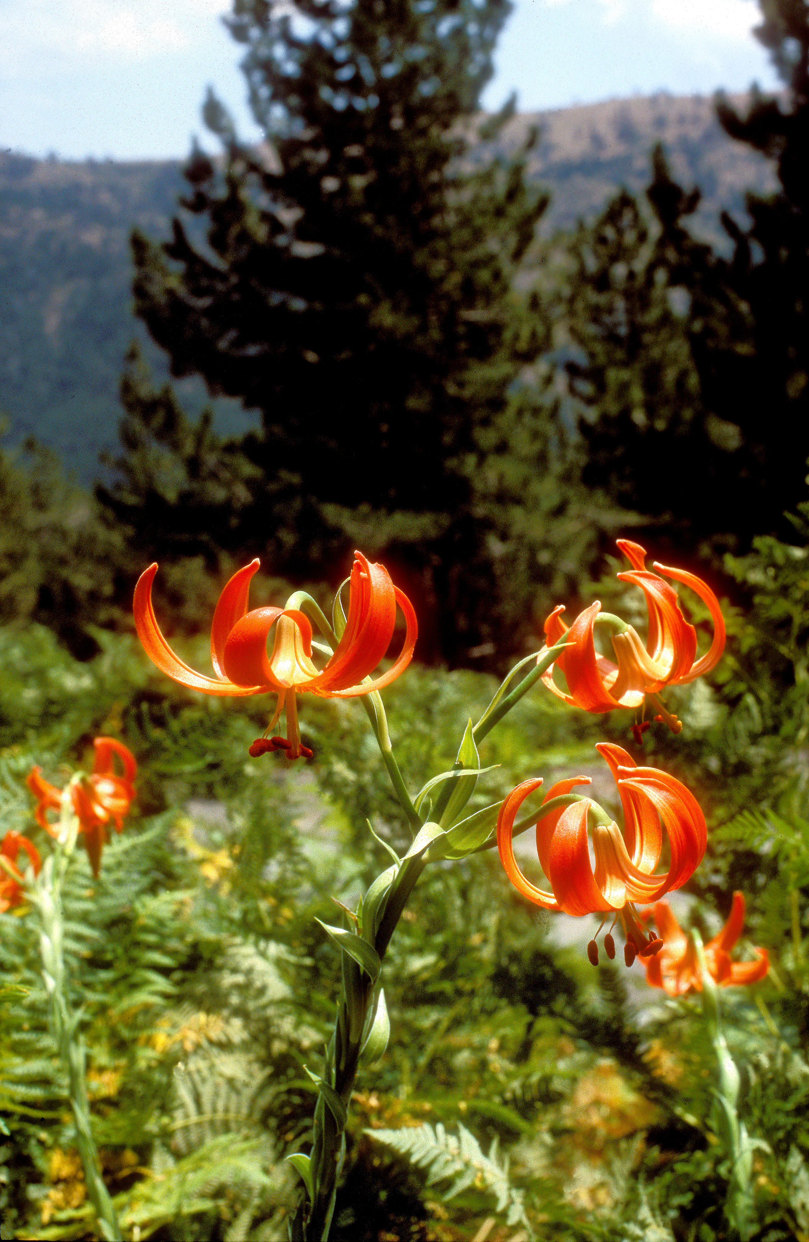 Lilium chalcedonicum in habitat at Pindus National Park, Greece